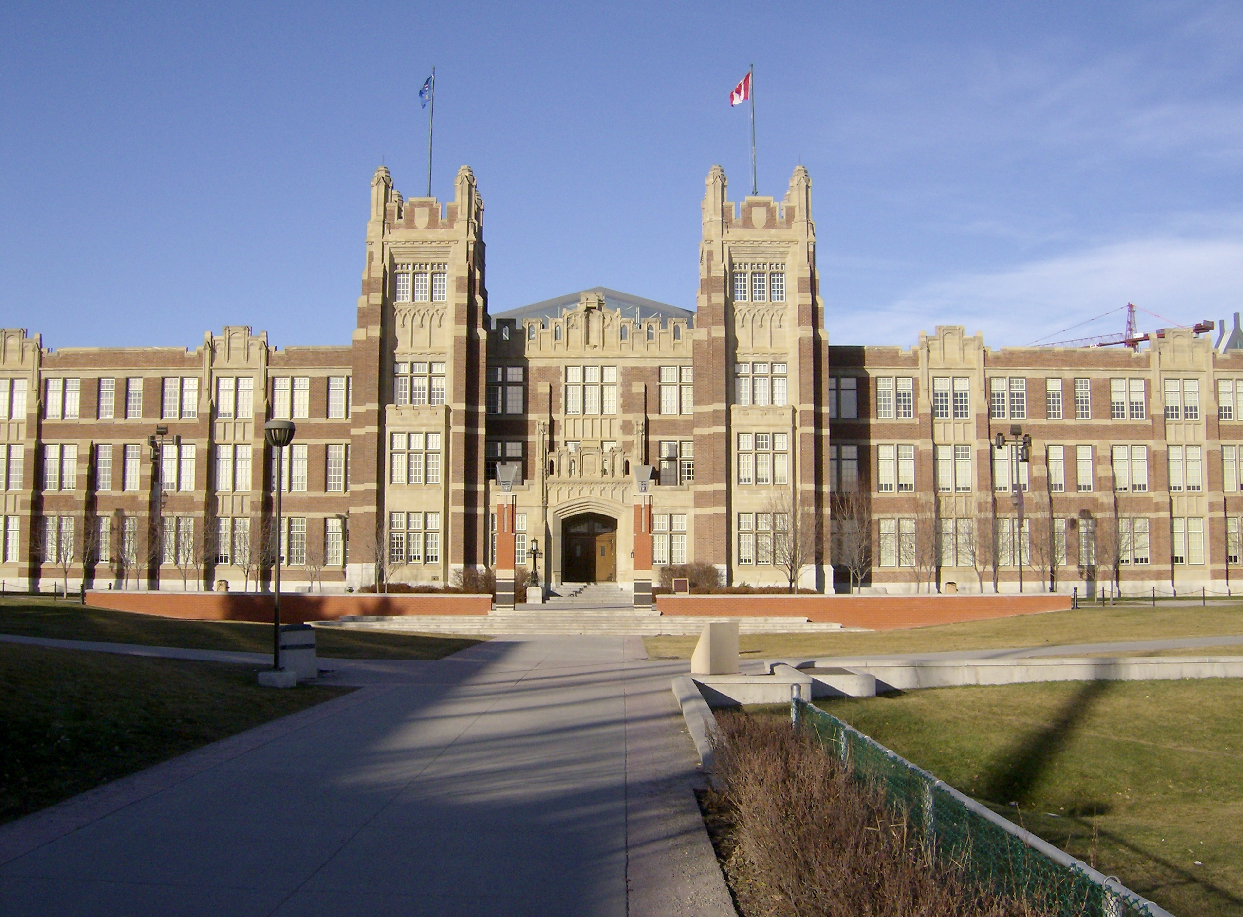 This is a picture of the "Heart Building/Heritage Hall" at the main campus of Southern Alberta Institute of Technology.